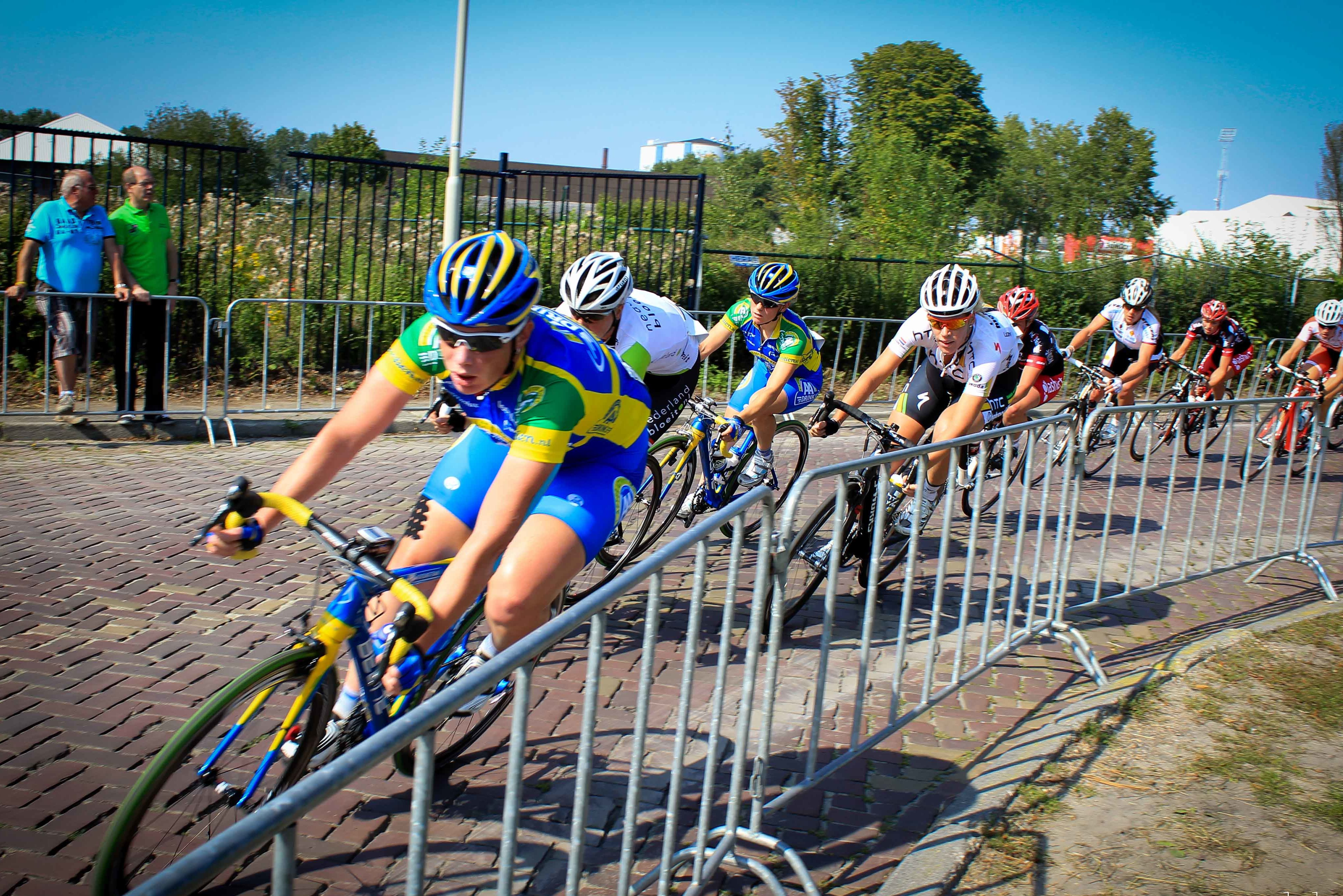 2011 Draai van de Kaai, Front: Kirsten Wild 3rd rider (HTC): Ellen van Dijk